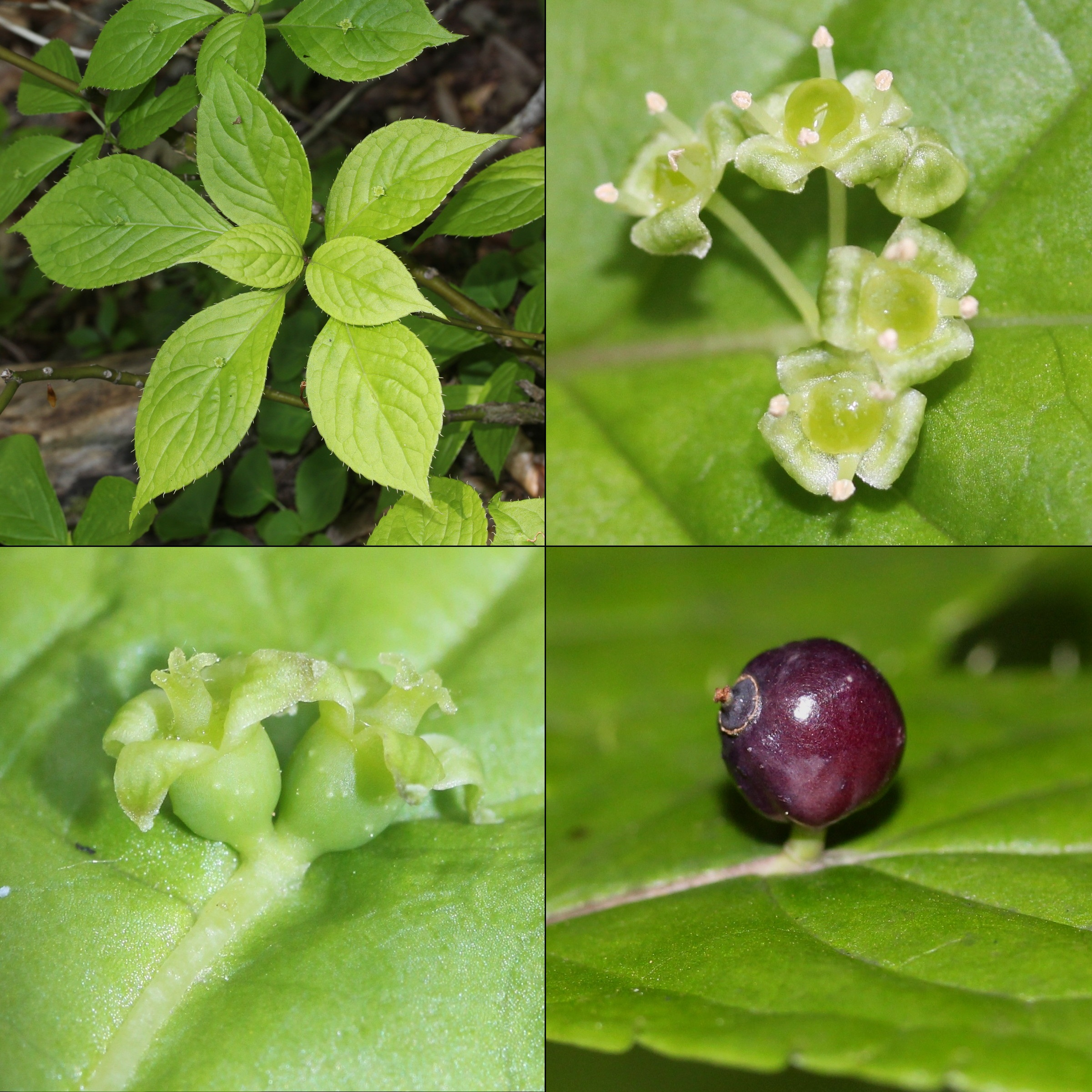 Montage of Helwingia japonica in Japan.